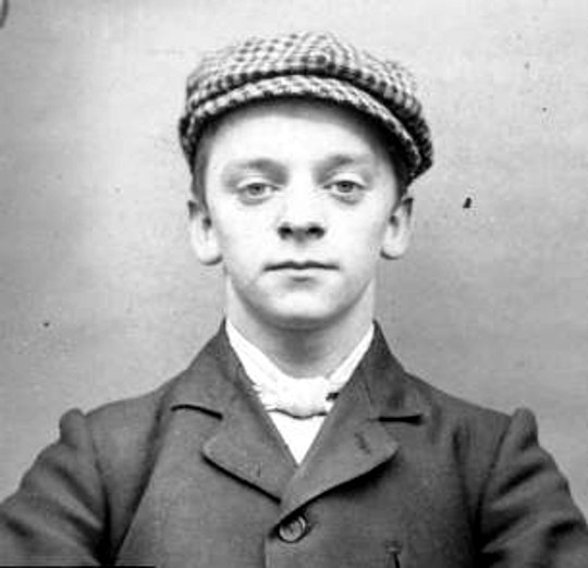 .police mugshot of 'Peaky Blinder' Harry Fowles